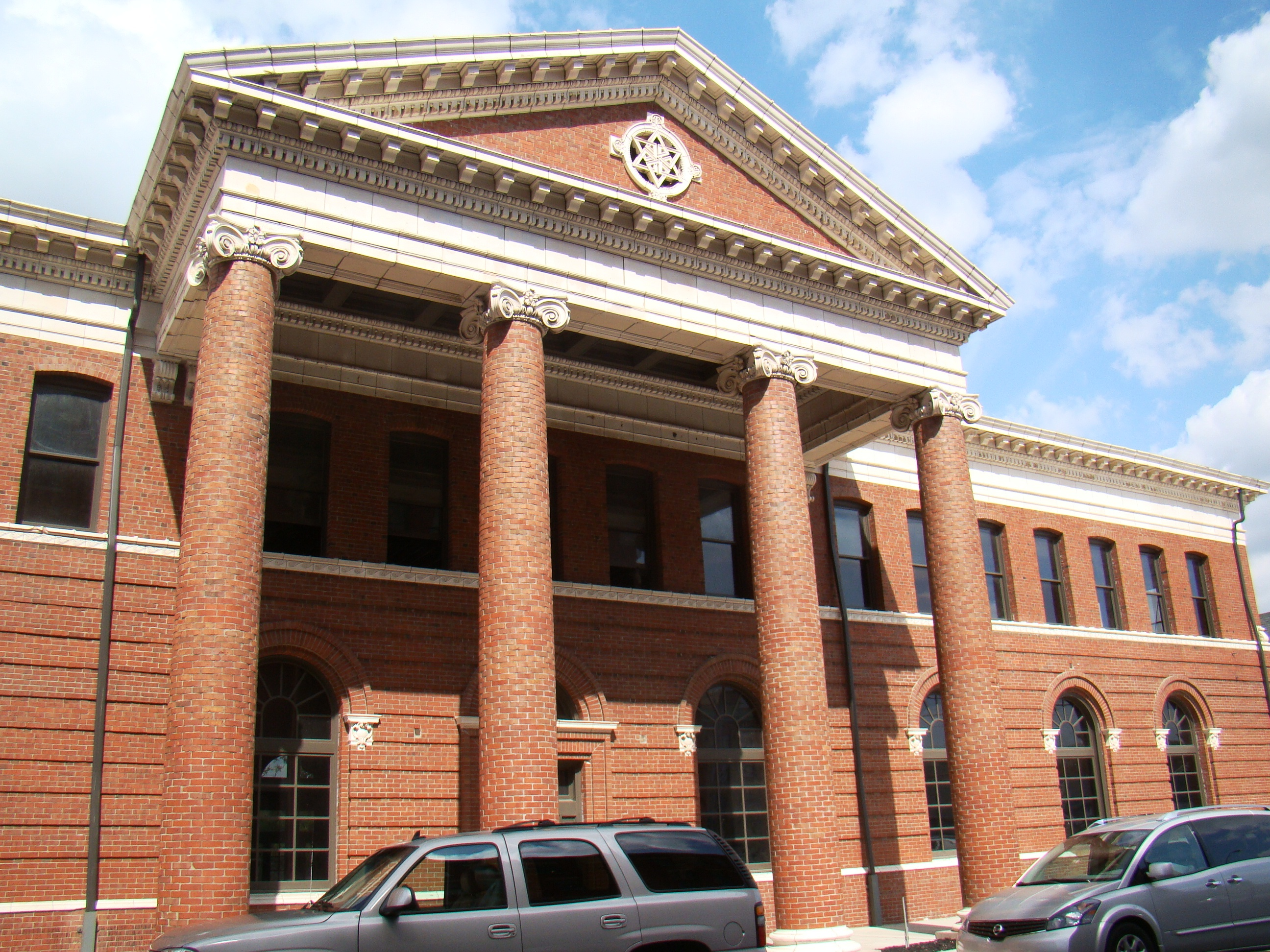 Pennsylvania Railroad Station, Richmond's Historic Depot District, in the process of rennovation. The station was served by the Pennsylvania Railroad until 1968, Penn Central until 1971, and finally by Amtrak's National Limited until 1979.